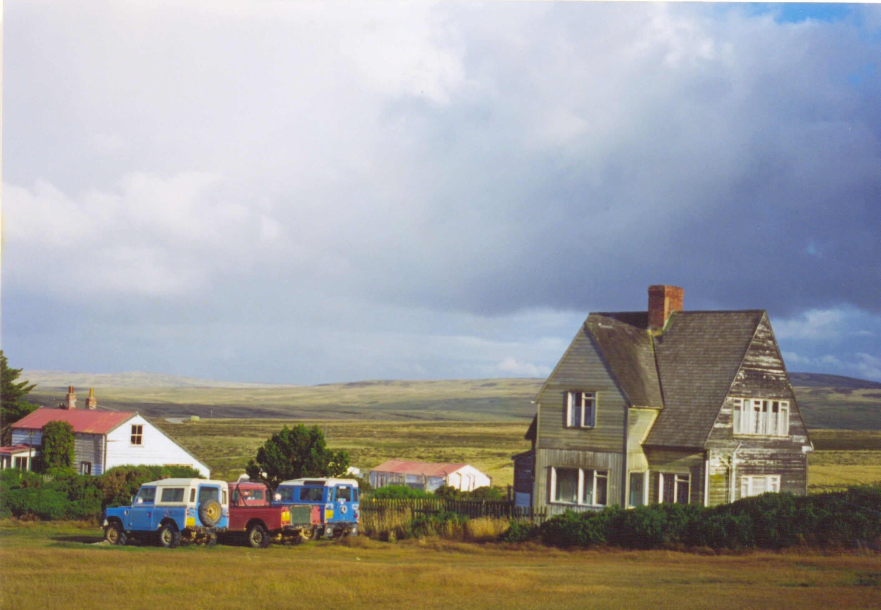 Teal Inlet, Falkland Islands.